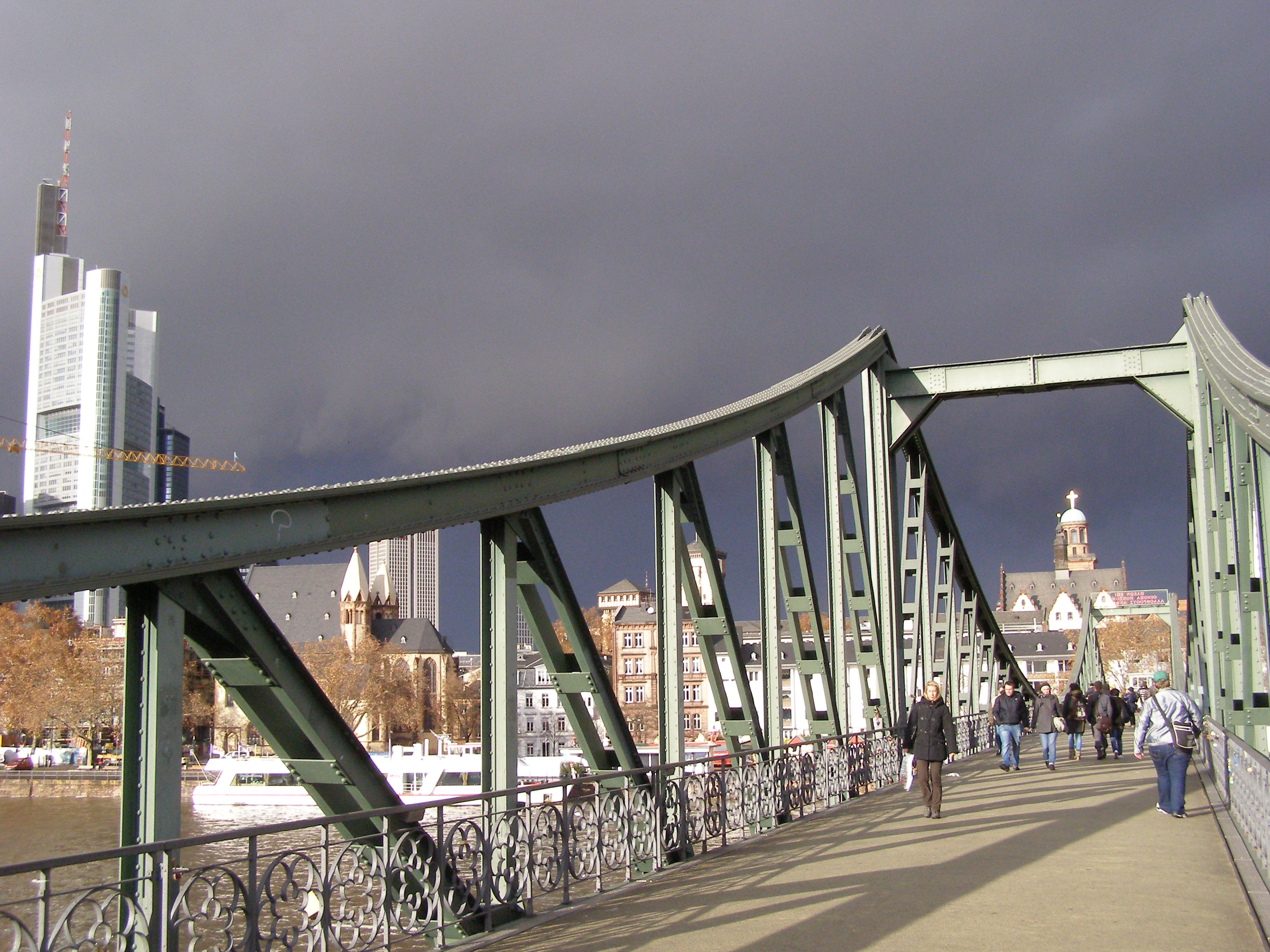 Frankfurt am Main - Eiserner Steg